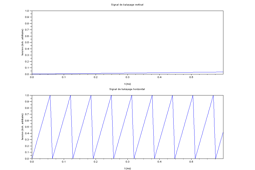 Television cathode ray tube scanning: voltage sent to the inductors (coils), assuming a 25 Hz system (PAL/SECAM), on the beginning of a frame, about 10 lines (interlaced scanning, one frame is 20 ms, 1/50 sec)